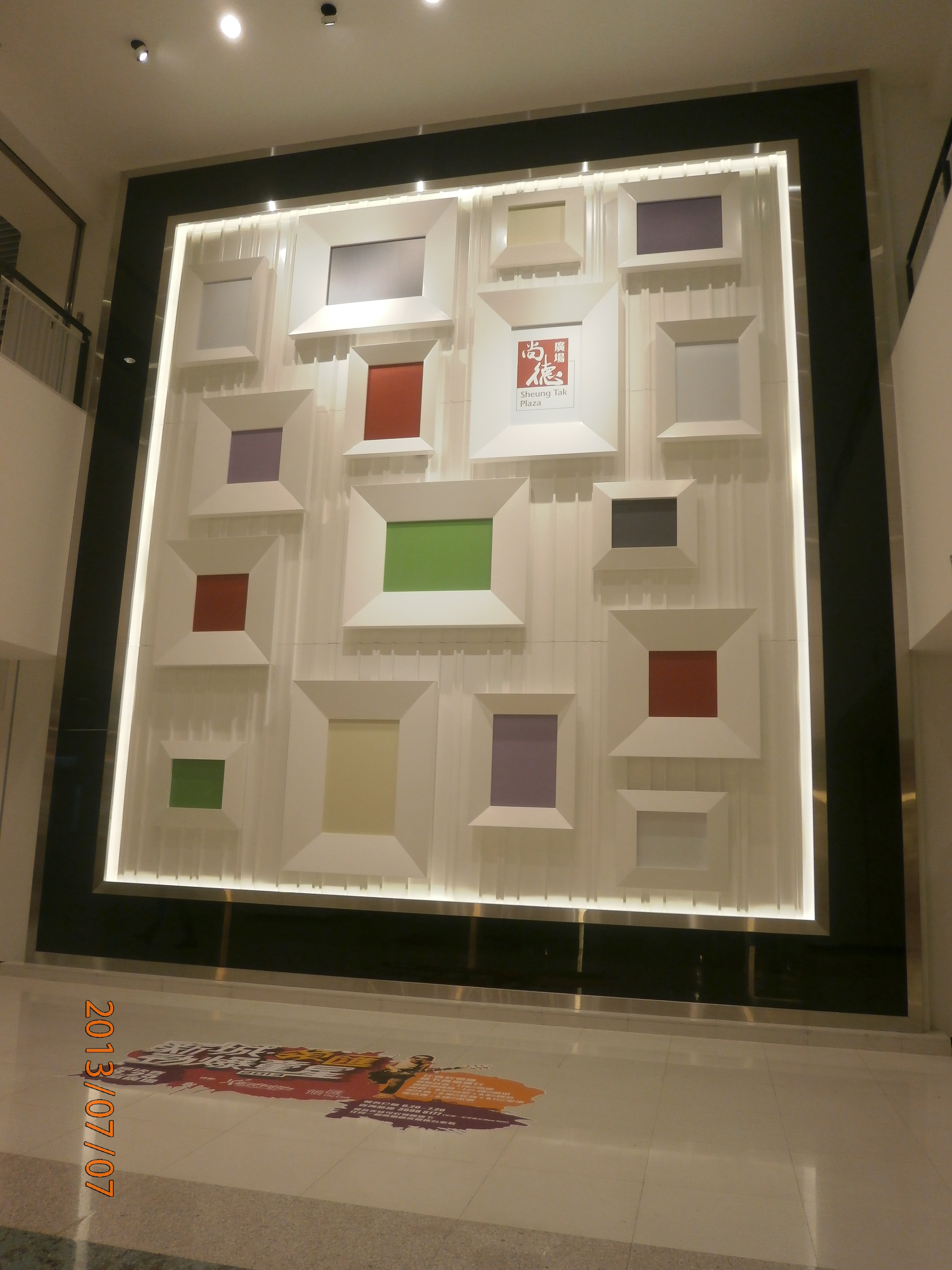 Sheung Tak Plaza Feature wall